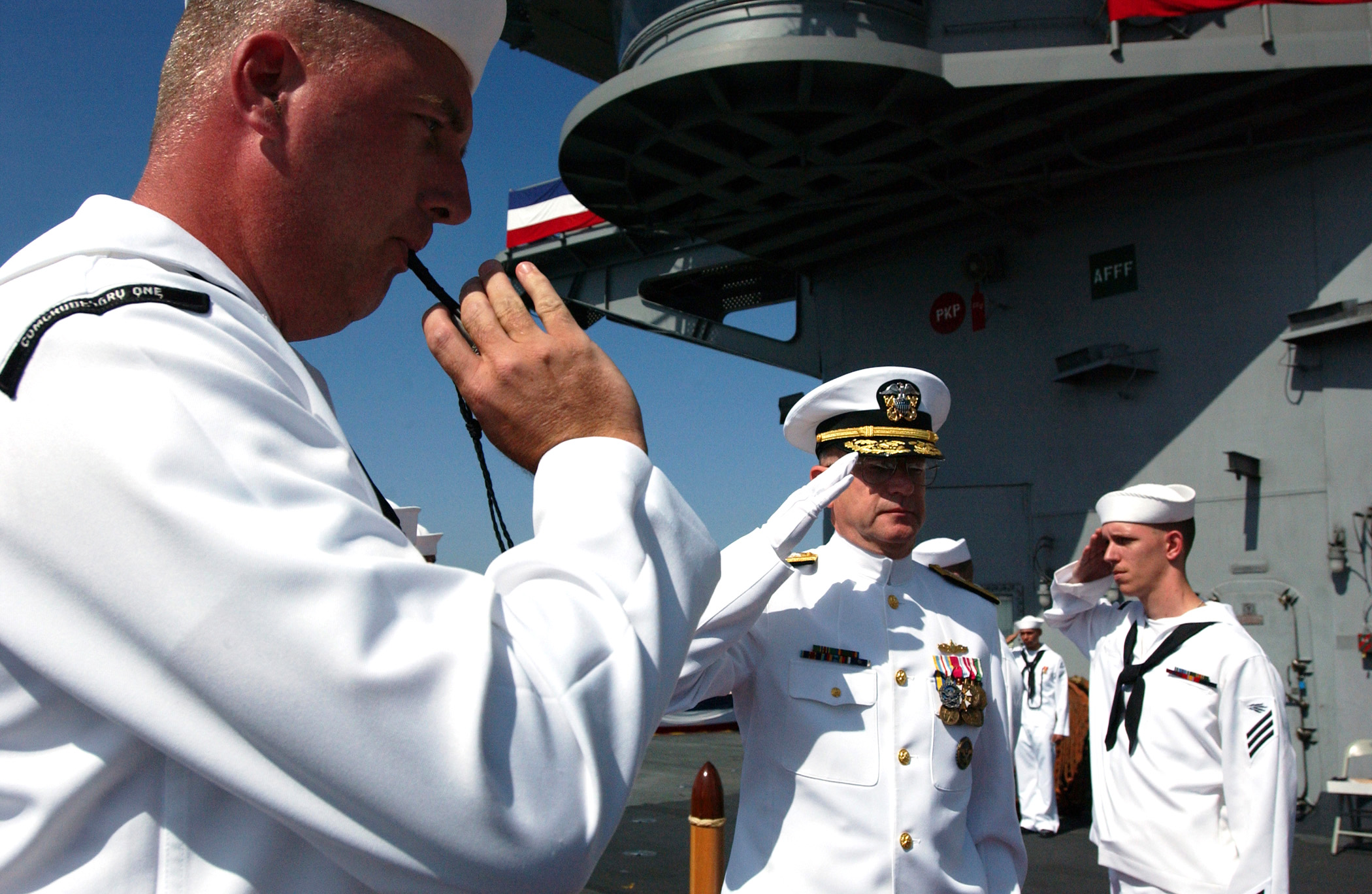 San Diego, Calif. (Aug. 6, 2004) - Boatswain’s Mate 1st Class Kenneth Smoulcey from Marlborough, N.Y., pipes arrival honors as Commander, Cruiser Destroyer Group One (CCDG-1), Rear Adm. Robert T. Moeller arrives for his Change of Command ceremony aboard the aircraft carrier USS Ronald Reagan (CVN 76). Rear Adm. Moeller is being relieved by Rear Adm. Robert J. Cox. U.S. Navy photo by Photographer’s Mate 3rd Class Kitt Amaritnant (RELEASED)